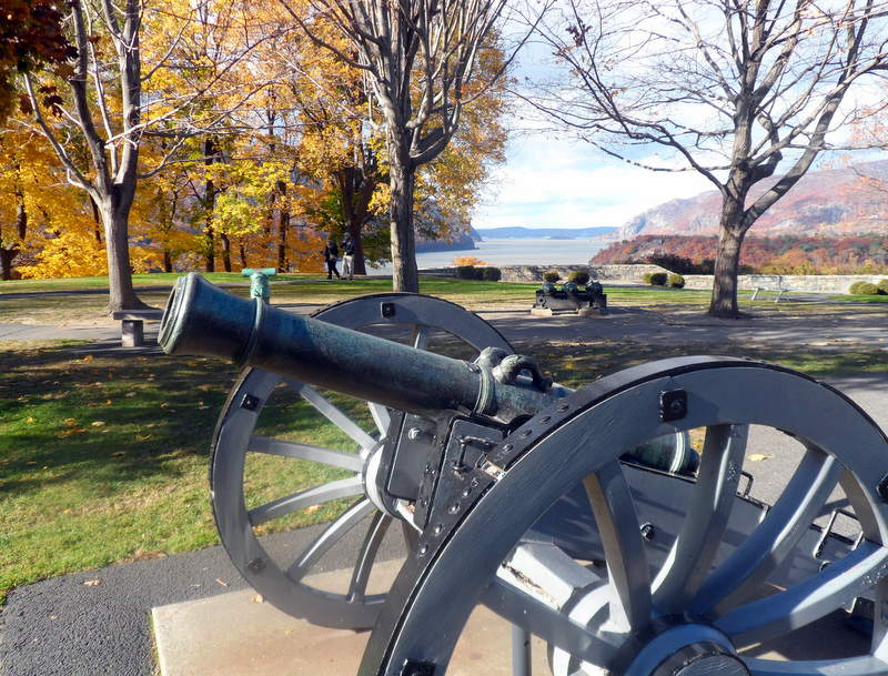 U.S. Military Academy, NY 218 West Point